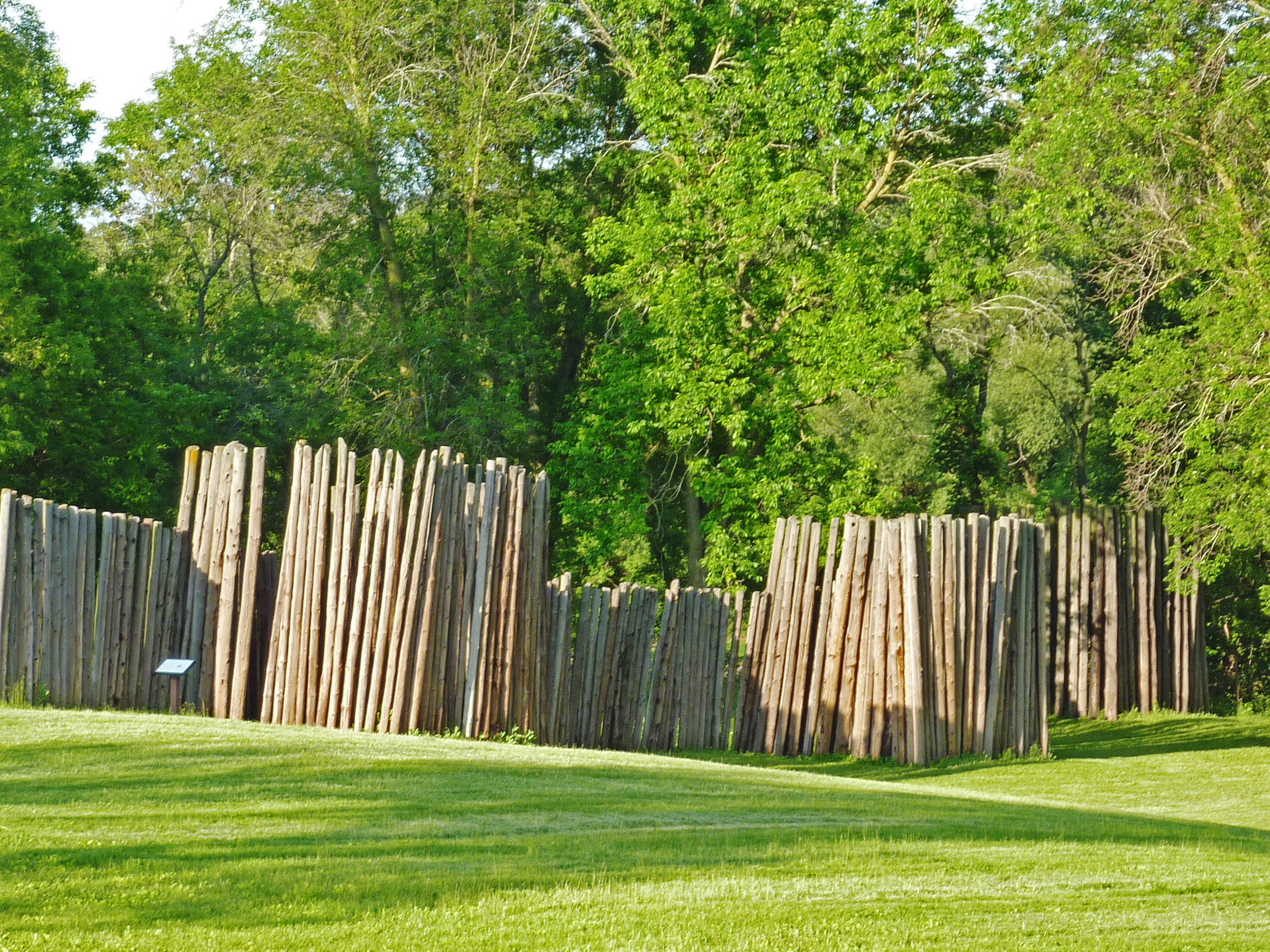 Stockade at Aztalan.